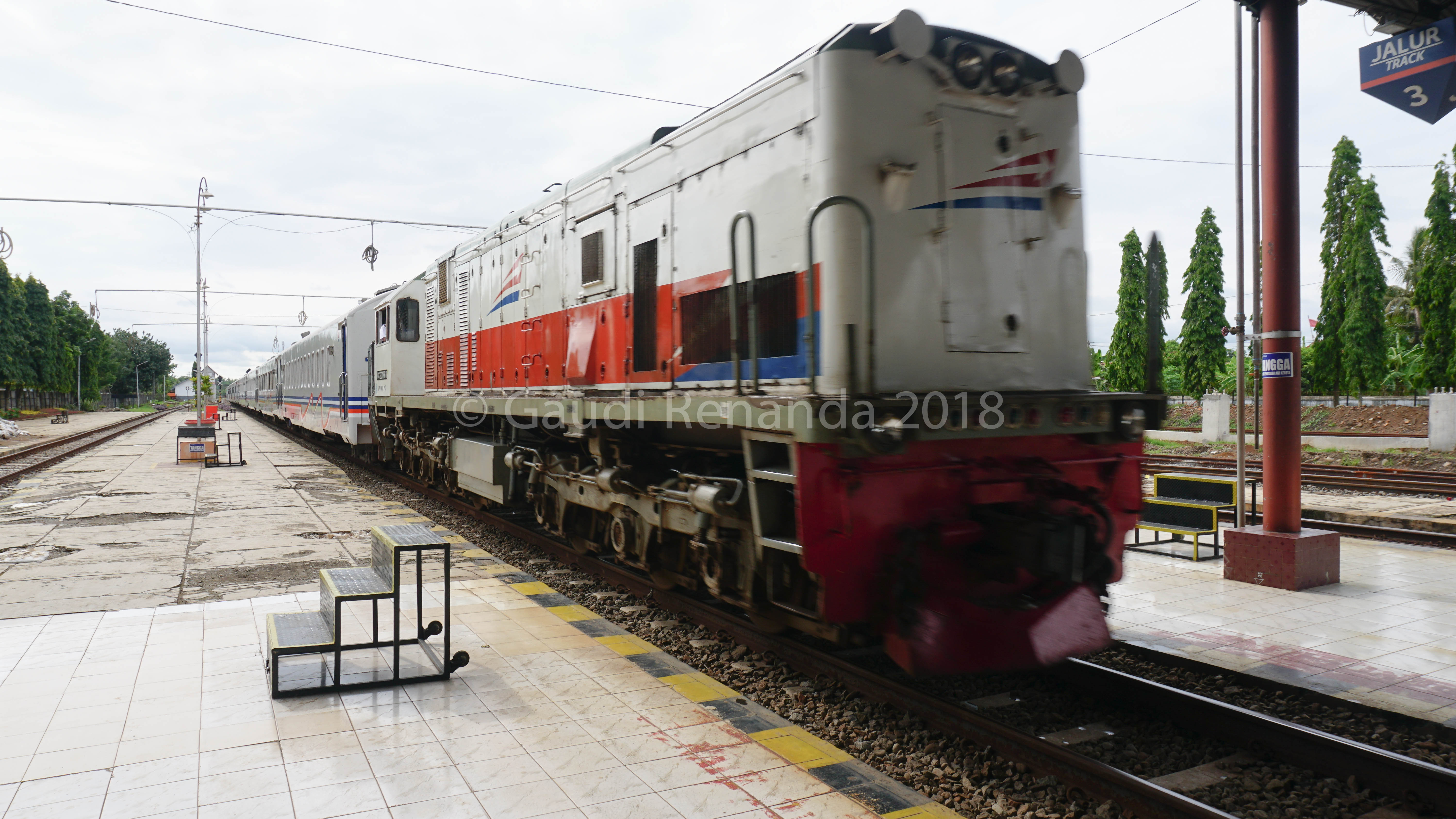 KA Wijayakusuma arriving at Kroya Station